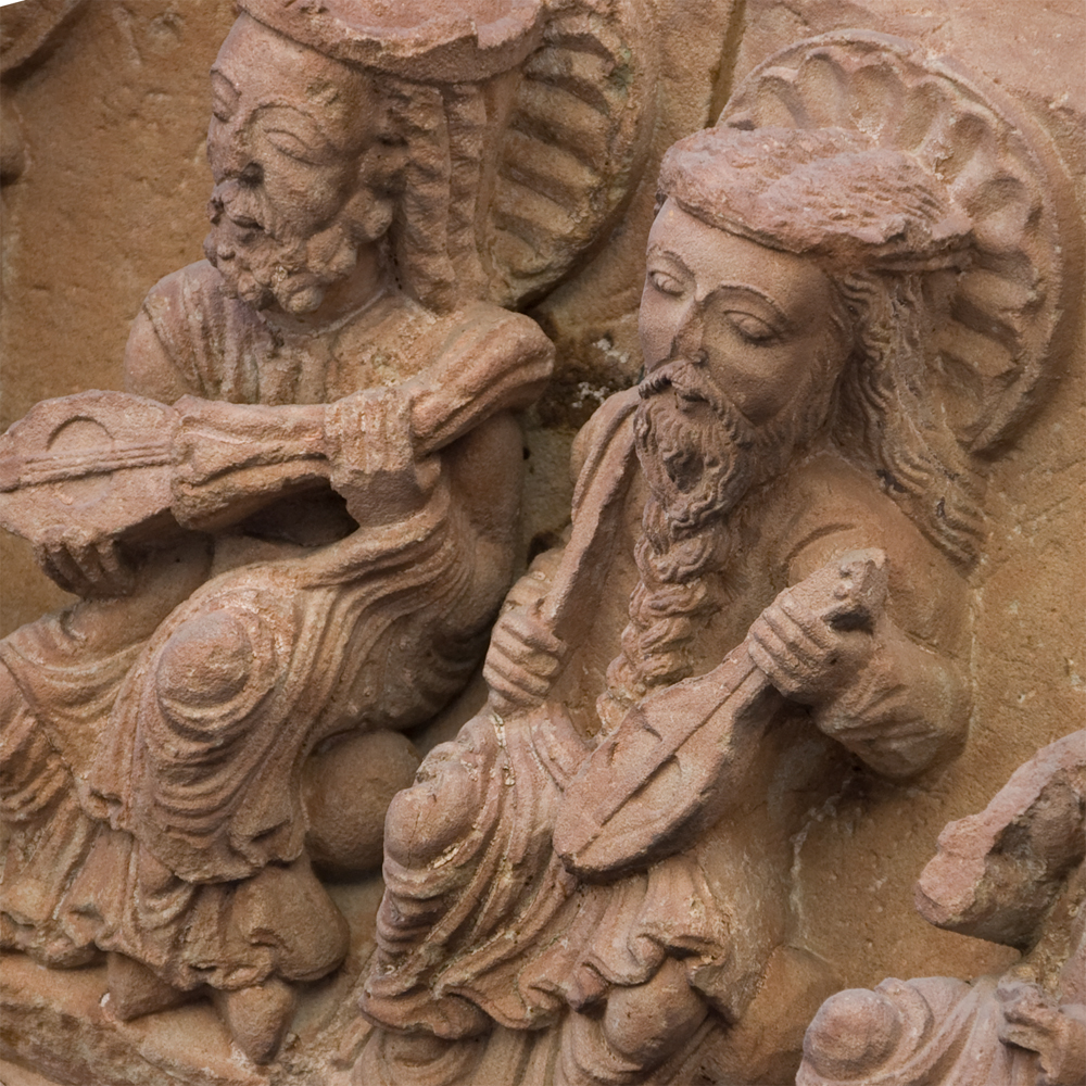 Elders of the Apocalyse. Detail from the arch of the 12thc. W portal of Santo Domingo Church, Soria, Spain.